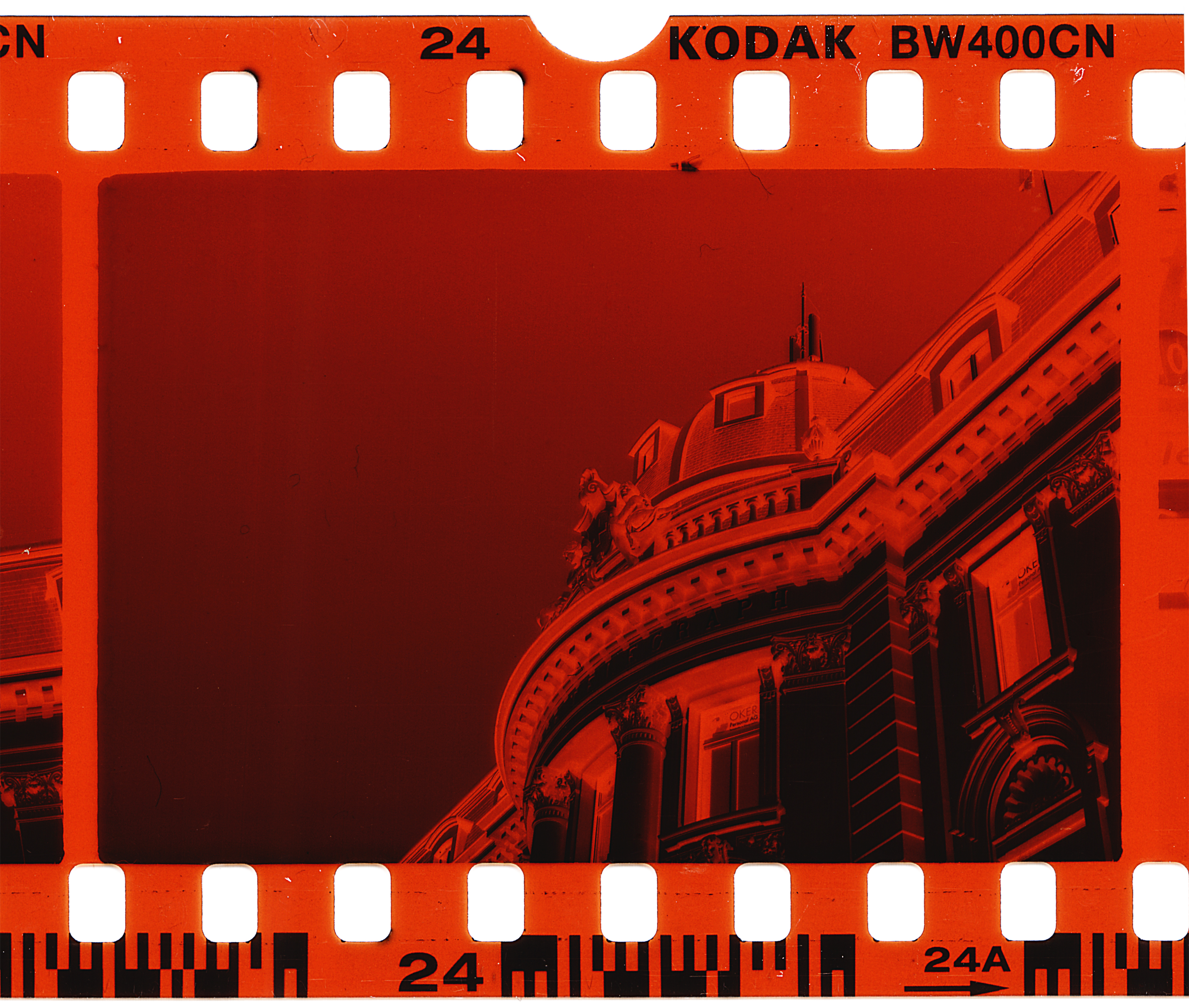 kodak analog negatives stripe